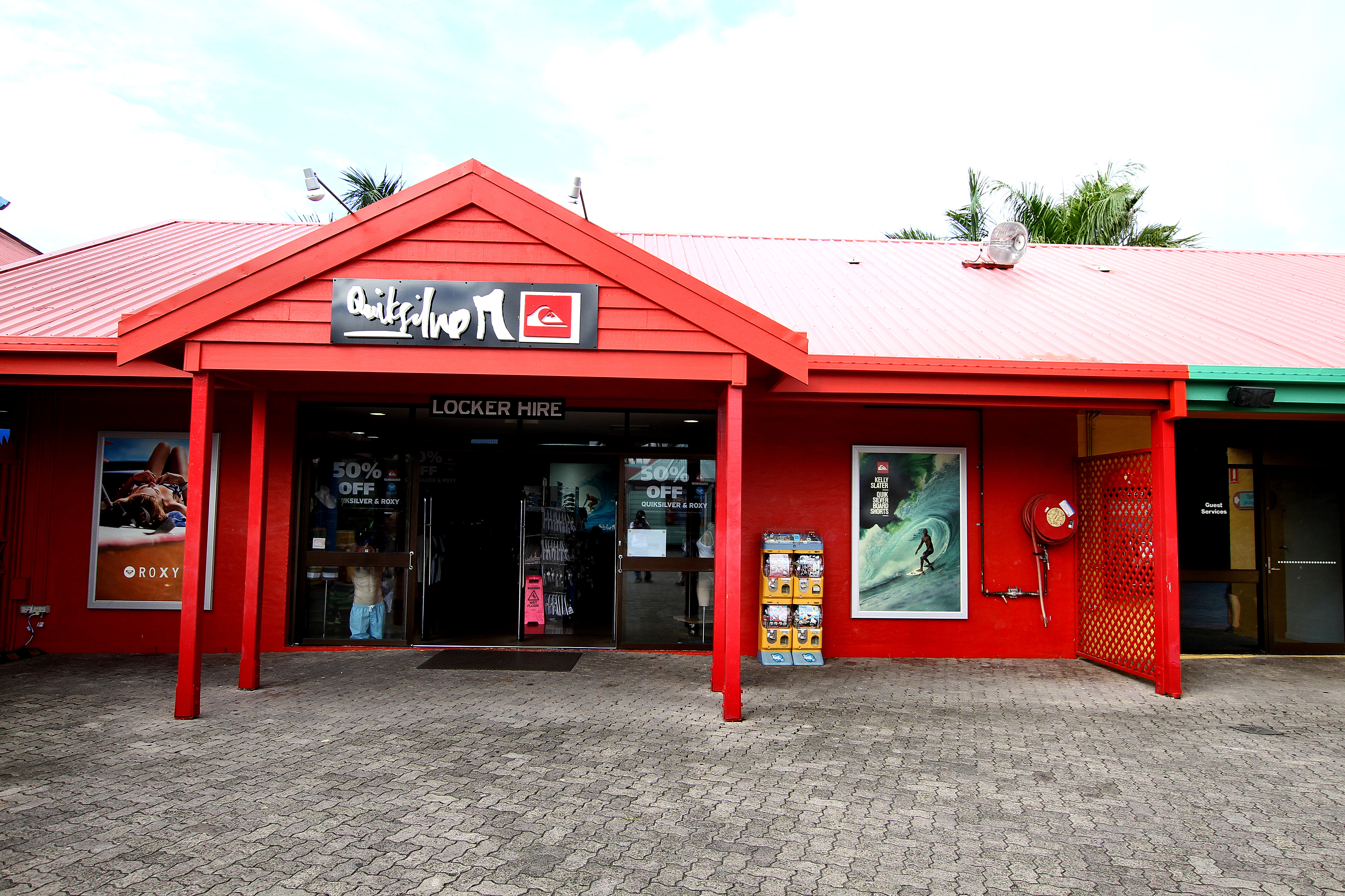 Gold Coast Australia